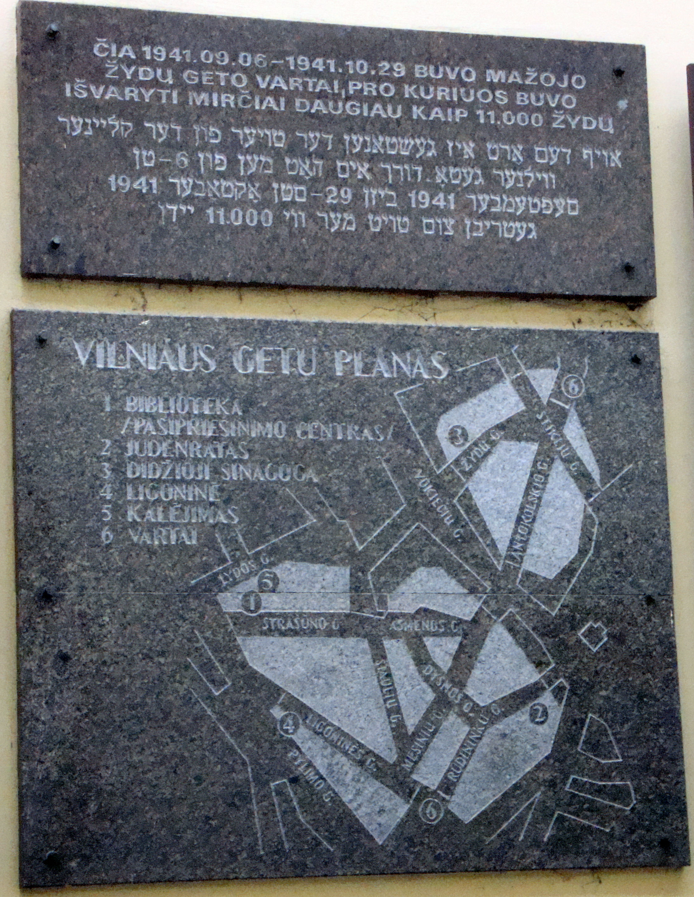 Photograph of the Jewish Ghetto Plaque, Vilnius, Lithuania